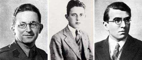 Marian Rejewski - Polish mathematician and cryptologist, helped decipher Enigma - in Warsaw, probably 1932